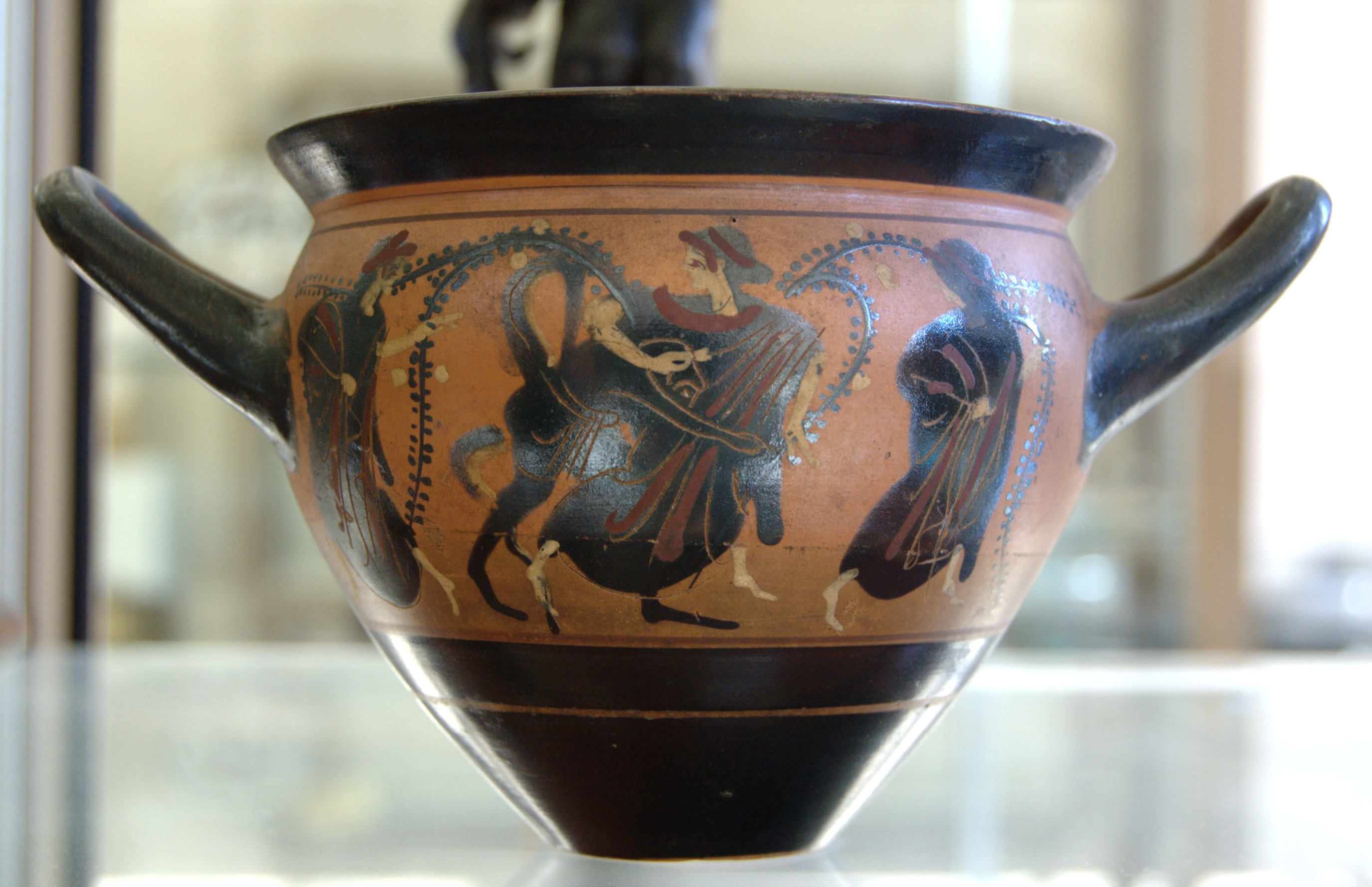 Peleus raping Thetis, Nereids. Attic black-figure mastoid.